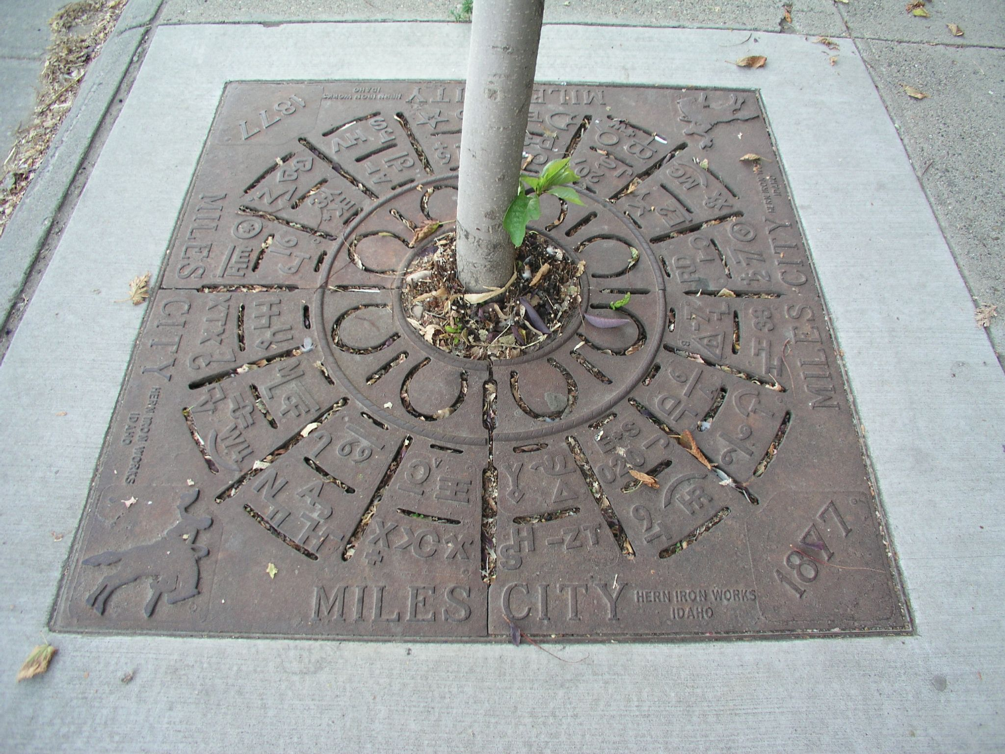 These grates surround the trees that line Main Street in downtown Miles City, Montana.